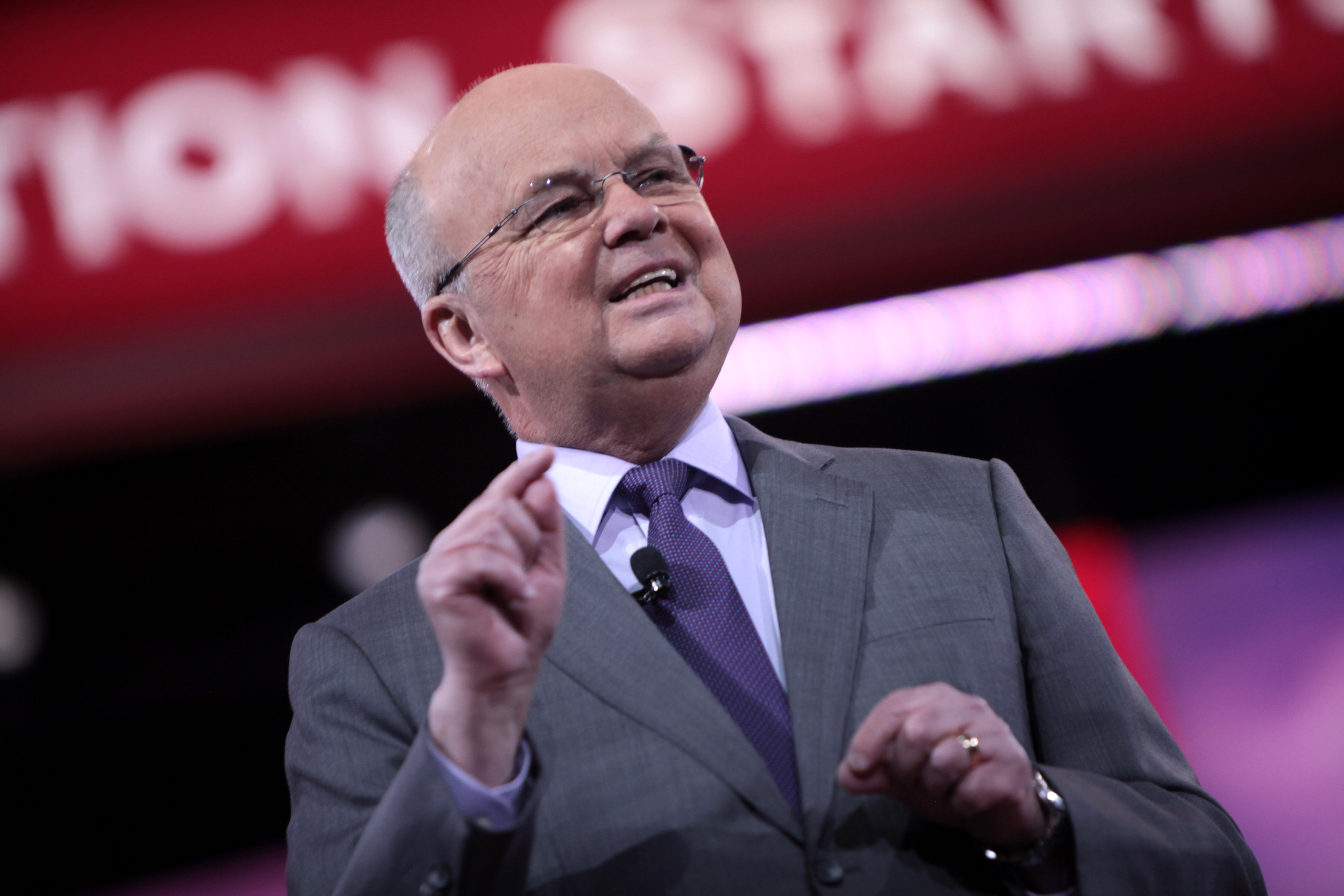 Michael Hayden speaking at CPAC 2015 in Washington, DC.